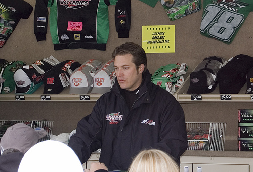 JJ Yeley signs autographs for his NASCAR fans